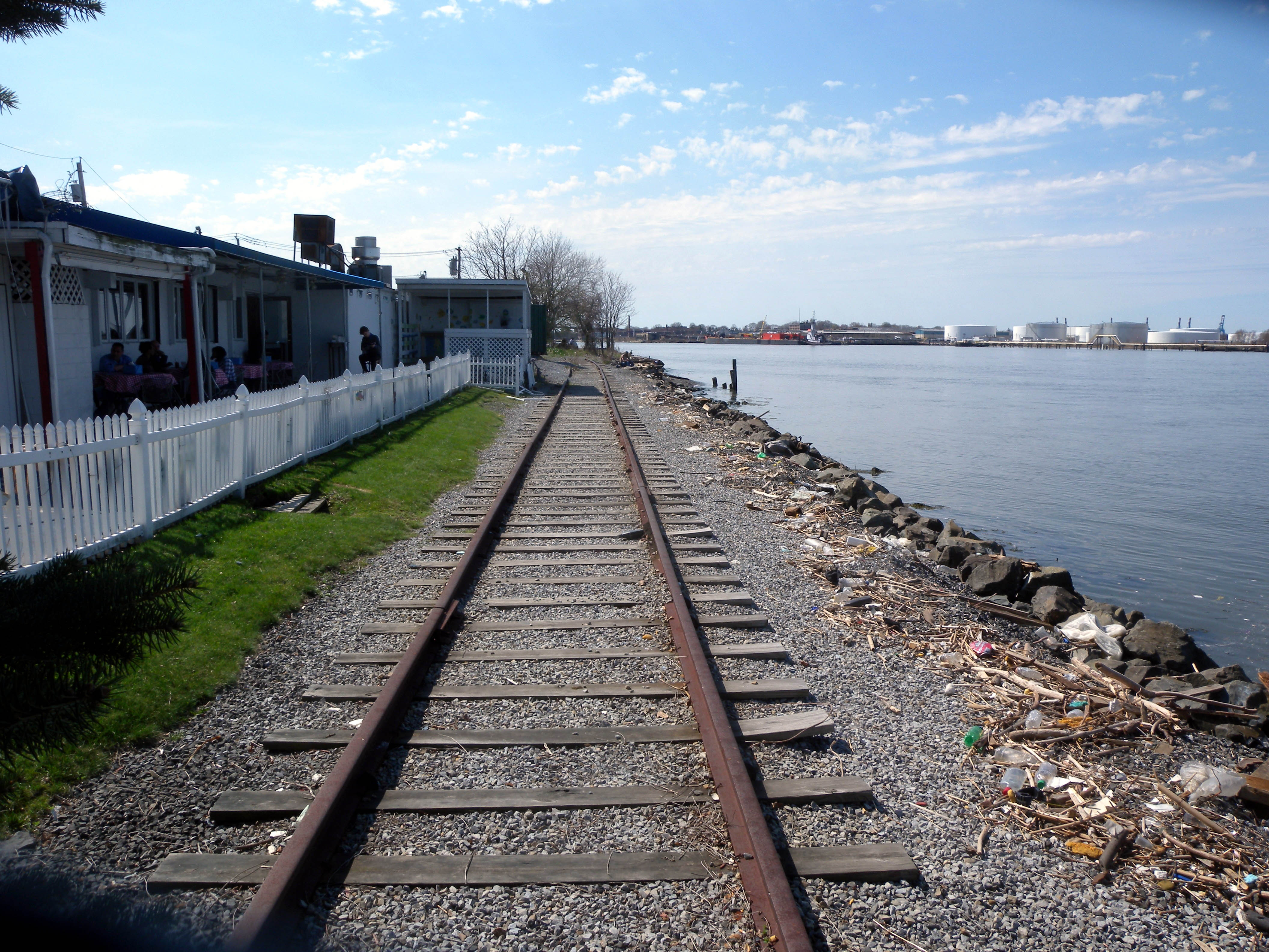 Looking west at tracks passing behind a restaurant in western Livingston on a sunny afternoon.